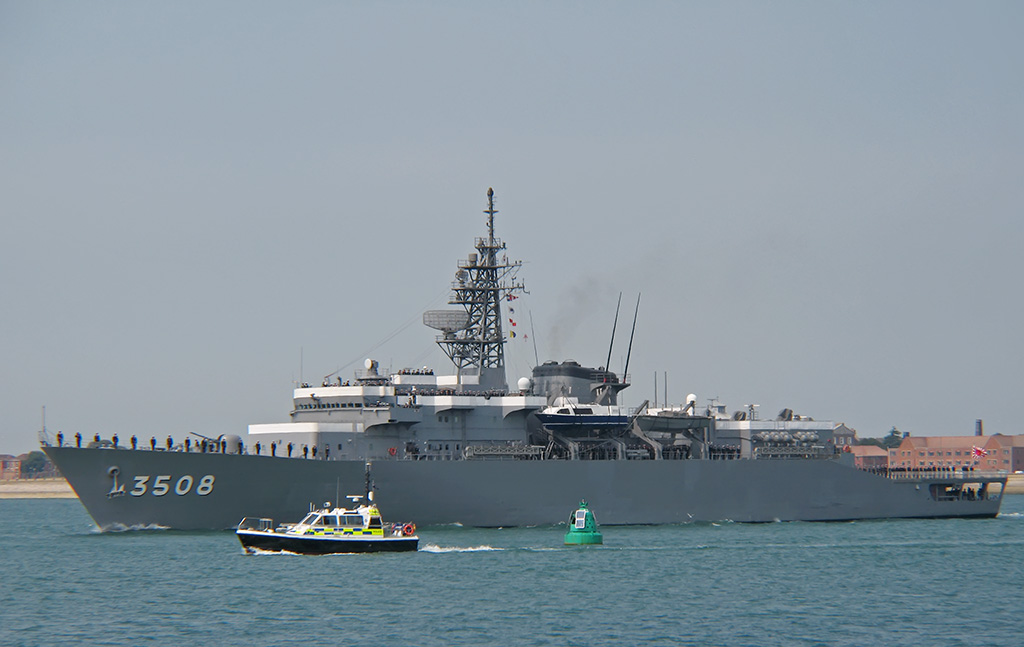 The Japanese training vessel JDS Kashima (TV-3508) photographed at Portsmouth, UK, on the 28 of July 2008 by Brian Burnell. Image uploaded by me User:George.Hutchinson from a photograph taken by and supplied by Brian Burnell. Wikipedia editors are reminded that the copyright remains with the photographer, and that the terms of the Creative Commons licence; that allow editors to reuse this image apply to Wikipedia editors also, as they do to other re-users of this image. Breaches of the licence terms are not only unlawful, but are also antisocial, in that breaches discourage photographers from making their images freely available to everyone without payment. Wikipedia re-users are also reminded of the license terms that derivatives of this image should not imply that the adaptation is endorsed or approved by the author or copyright holder. Neither should derivatives be presented as the creation of the author or copyright holder, while clearly stating that the adaptation is a derivative of the original. Attribution online should be in this format Brian Burnell. On the printed page, a simpler form is acceptable - example: "Image: Brian Burnell". Non-Wikipedia users are requested to advise Brian Burnell of its use other than on Wikipedia.